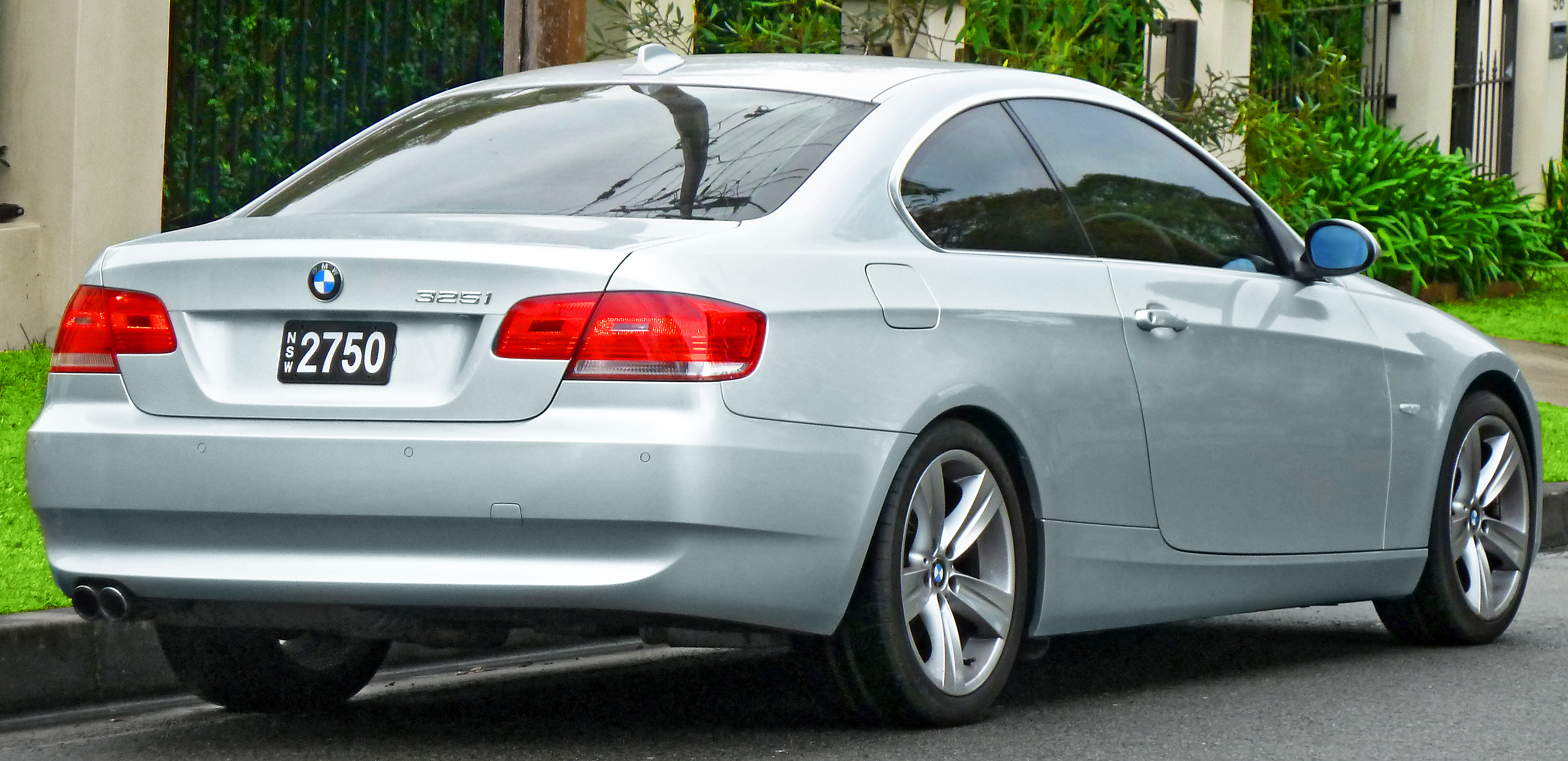 2006–2010 BMW 325i (E92) coupe. Photographed in Roseville, New South Wales, Australia.